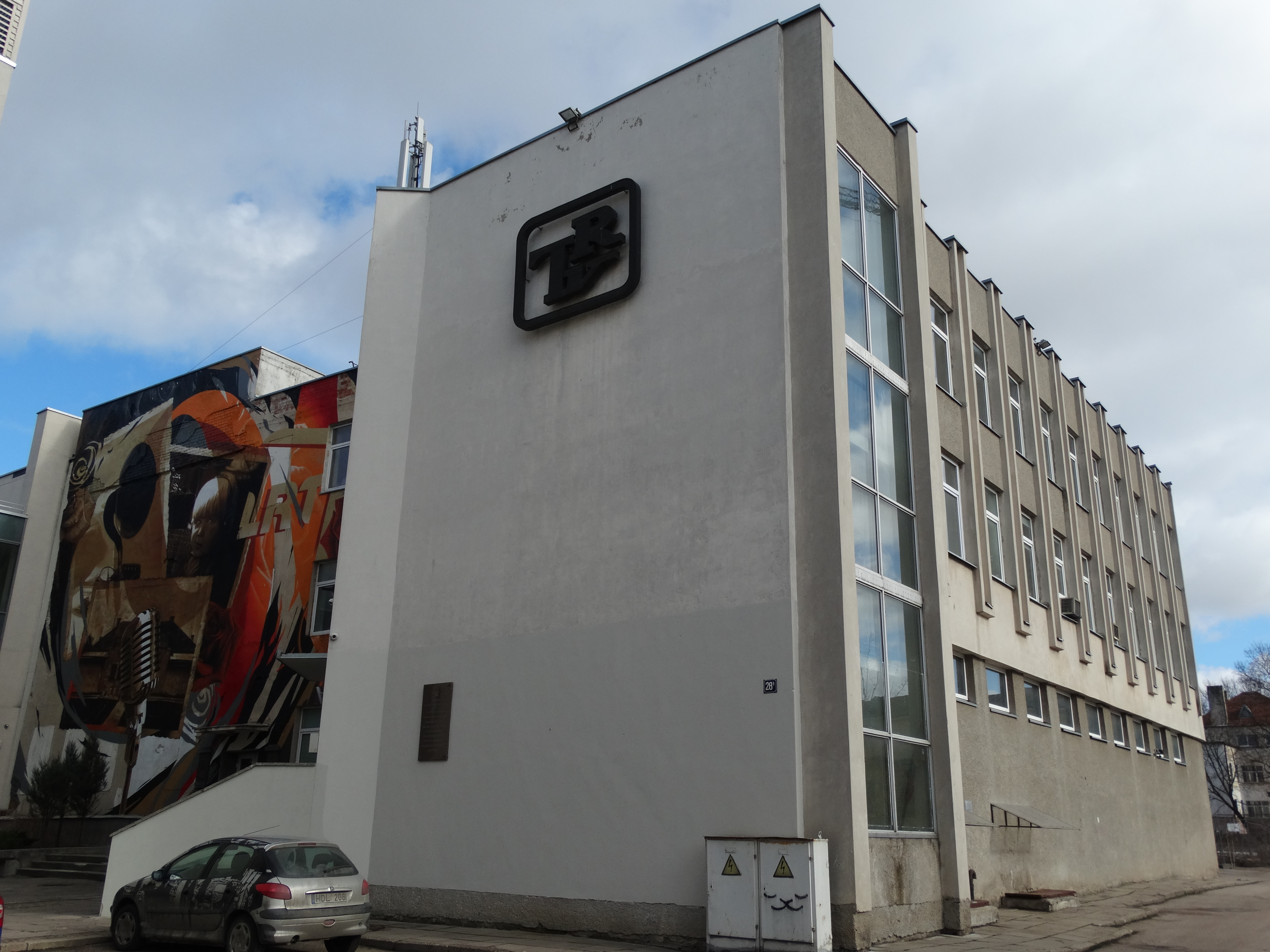 Lithuanian National Radio and Television, Kaunas